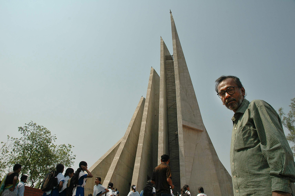 Syed Mainul Hossen is sitting beside Jatio Smiti Soudho at Saver. Dhaka, Bangladesh